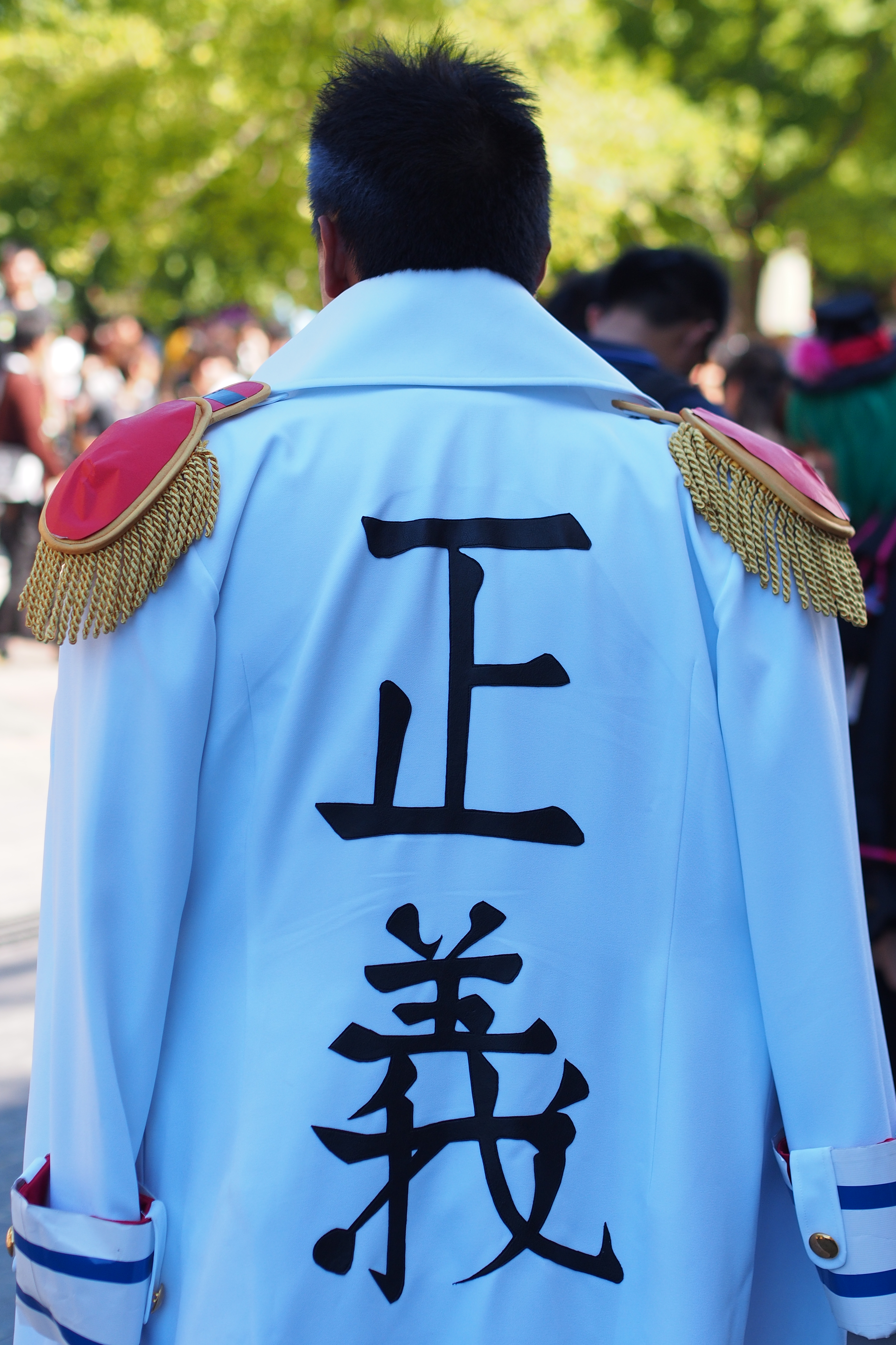 P7280588 Fancy Frontier 20